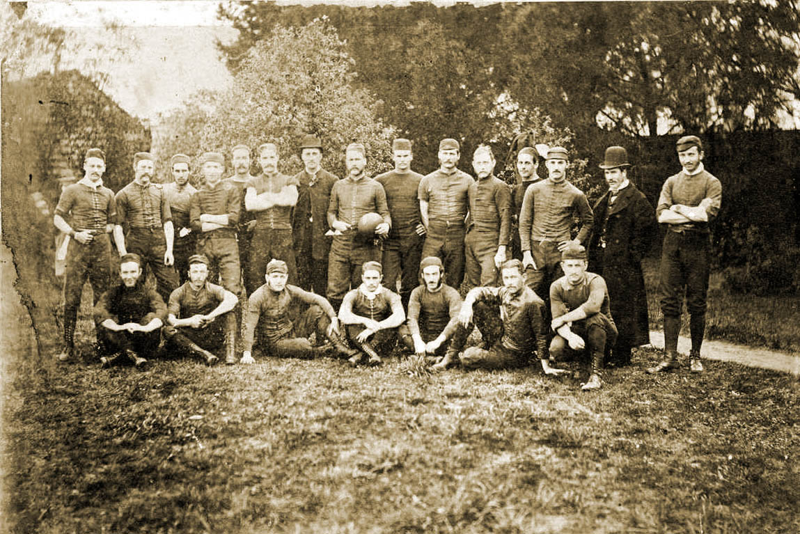 Early photo of a Melbourne FC team.